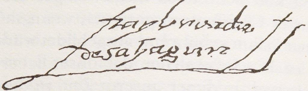 Signature of Fray Bernardino de Sahagún (ca. 1570)